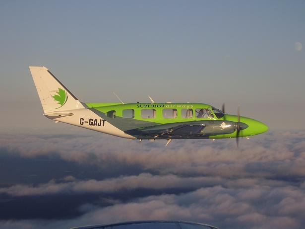 My work